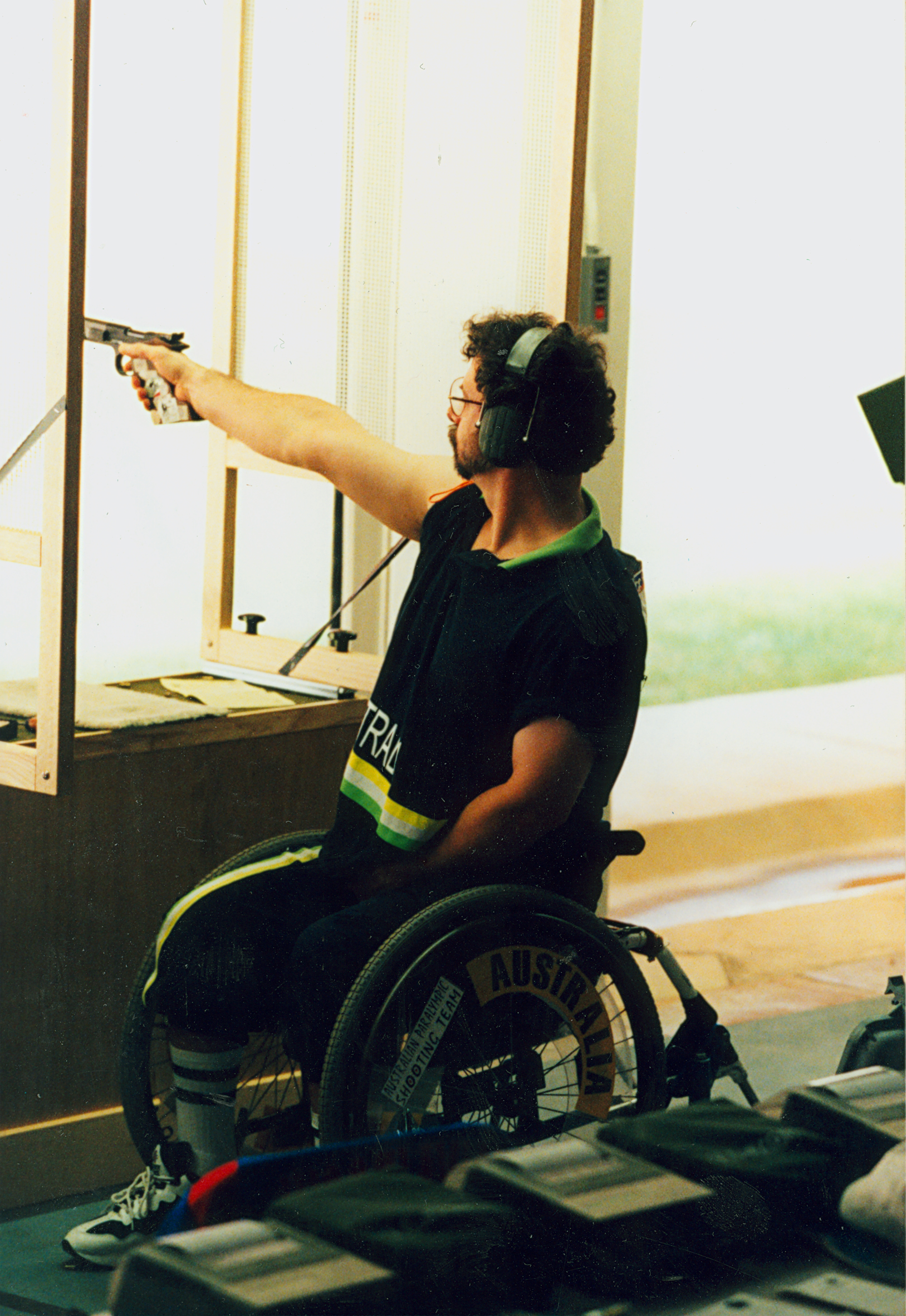 Australian paralympic shooter, James Nomarhas, at the shooting event during the Atlanta 1996 Paralympic Games.